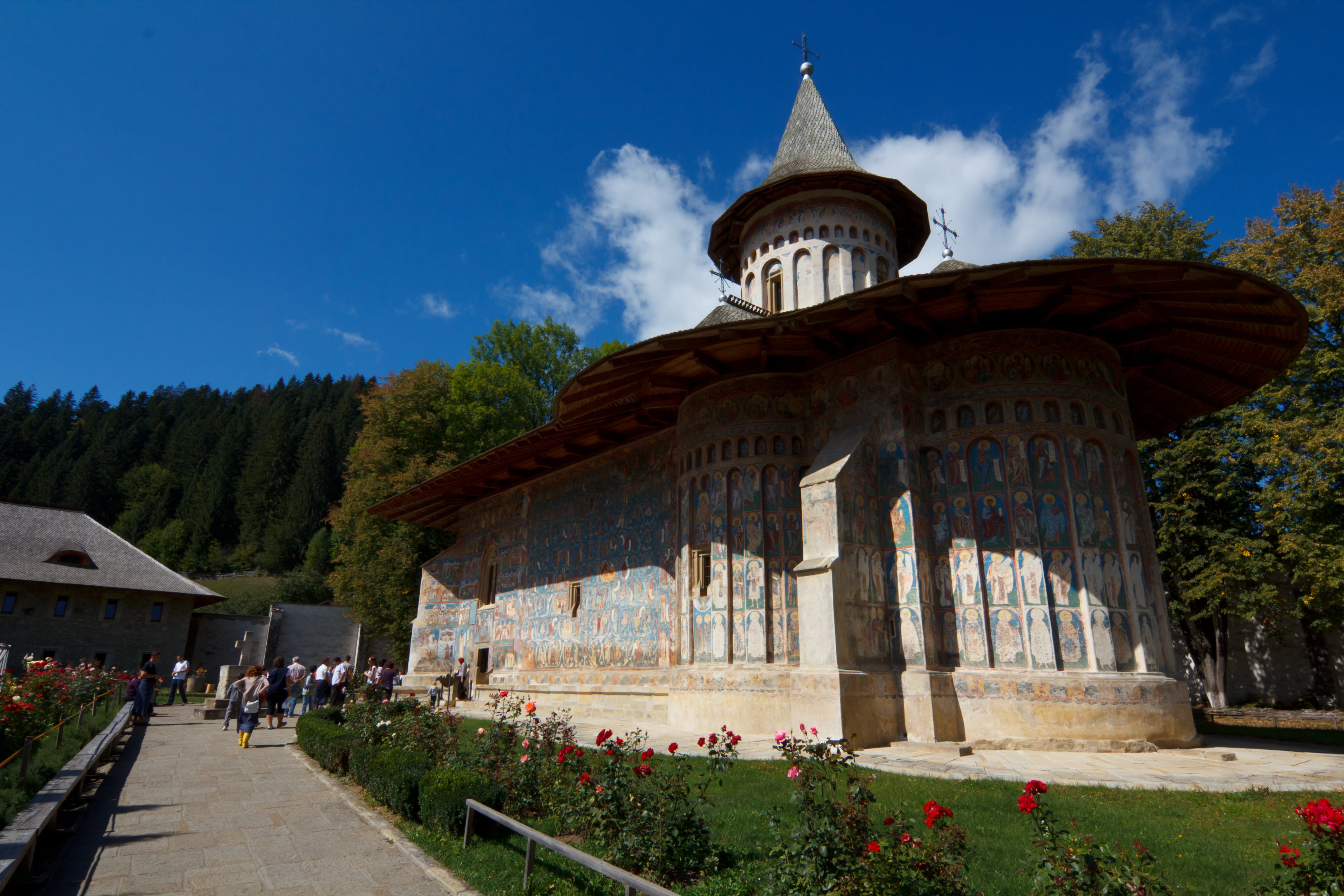 Voronet Monastery's Church - Overview 01